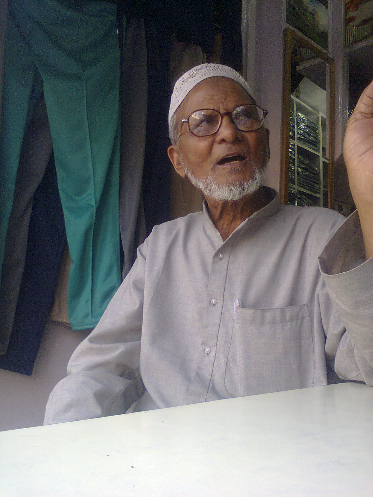 Haji Moinduddin Ansari Retired Teacher of Azad Inter College Bahraich